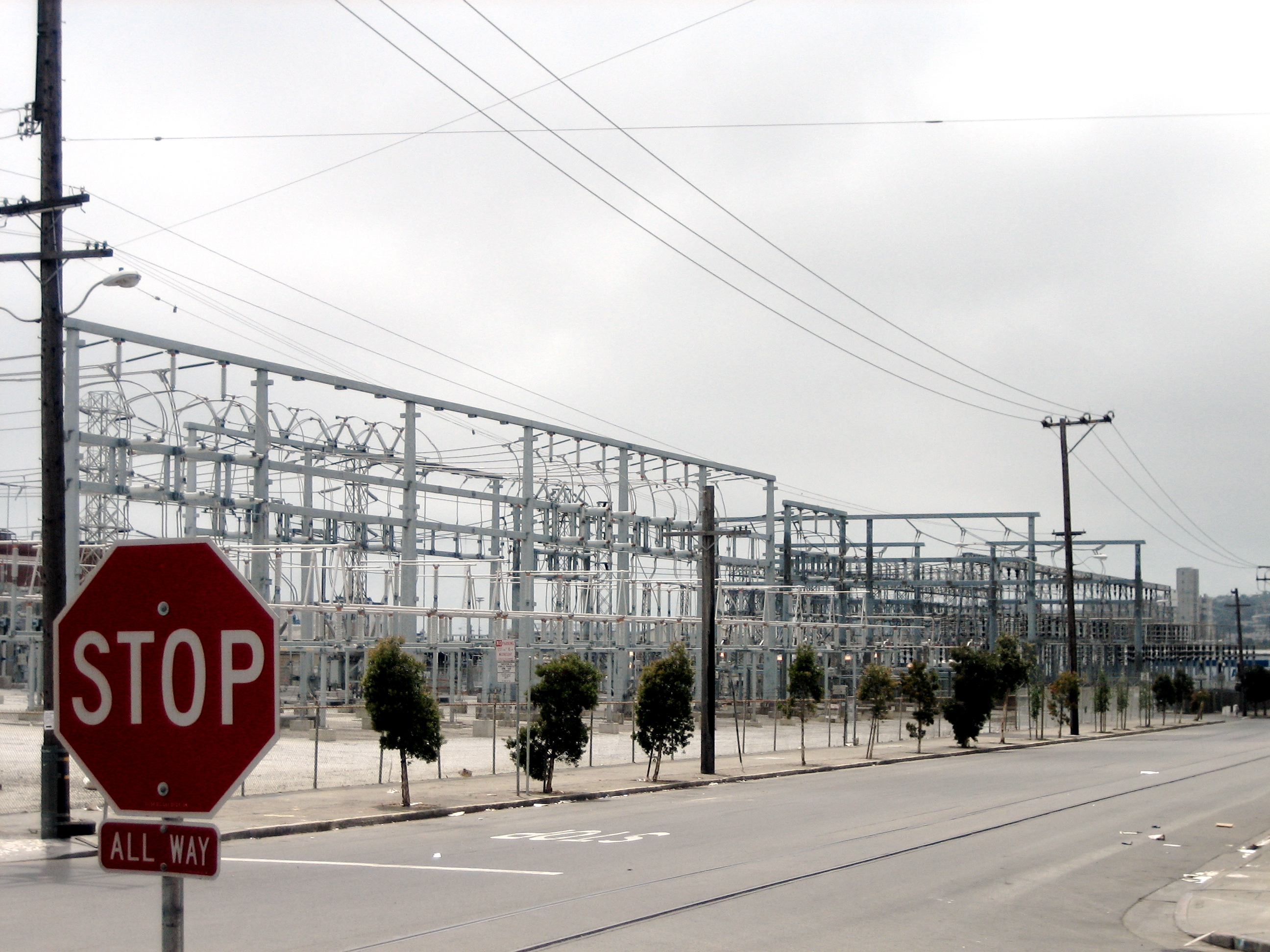 PG&E Northern/Southern switch yards in the Dogpatch area of San Francisco; Illinois Street/22nd Street.